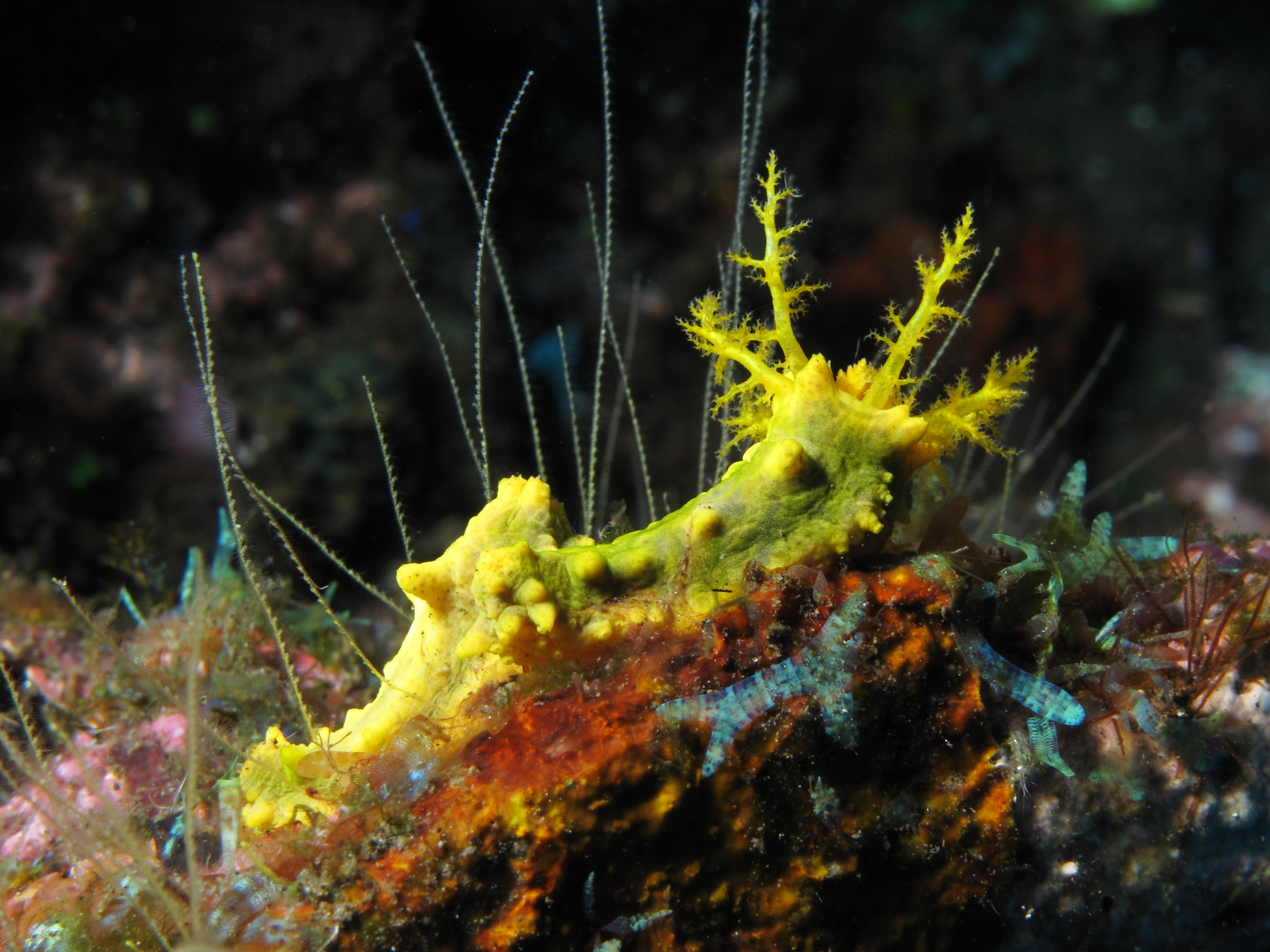 Yellow sea cucumber Colochirus robustus at Sangean Island (near Komodo, Indonesia)